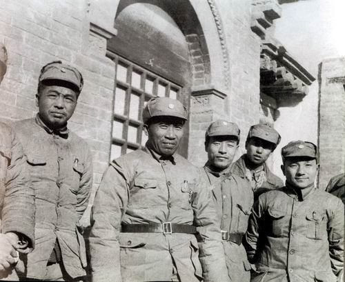 1937 Deng Xiaoping in NRA uniform. 1937年，任八路军总部政治部副主任的邓小平。